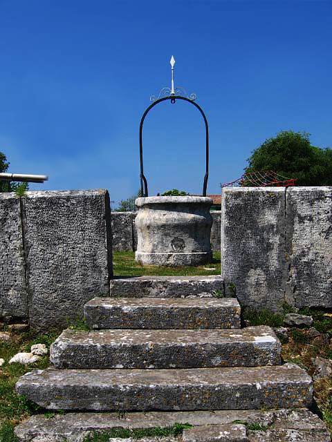 Old medieval draw-well in the village of Muntic, in Istria.